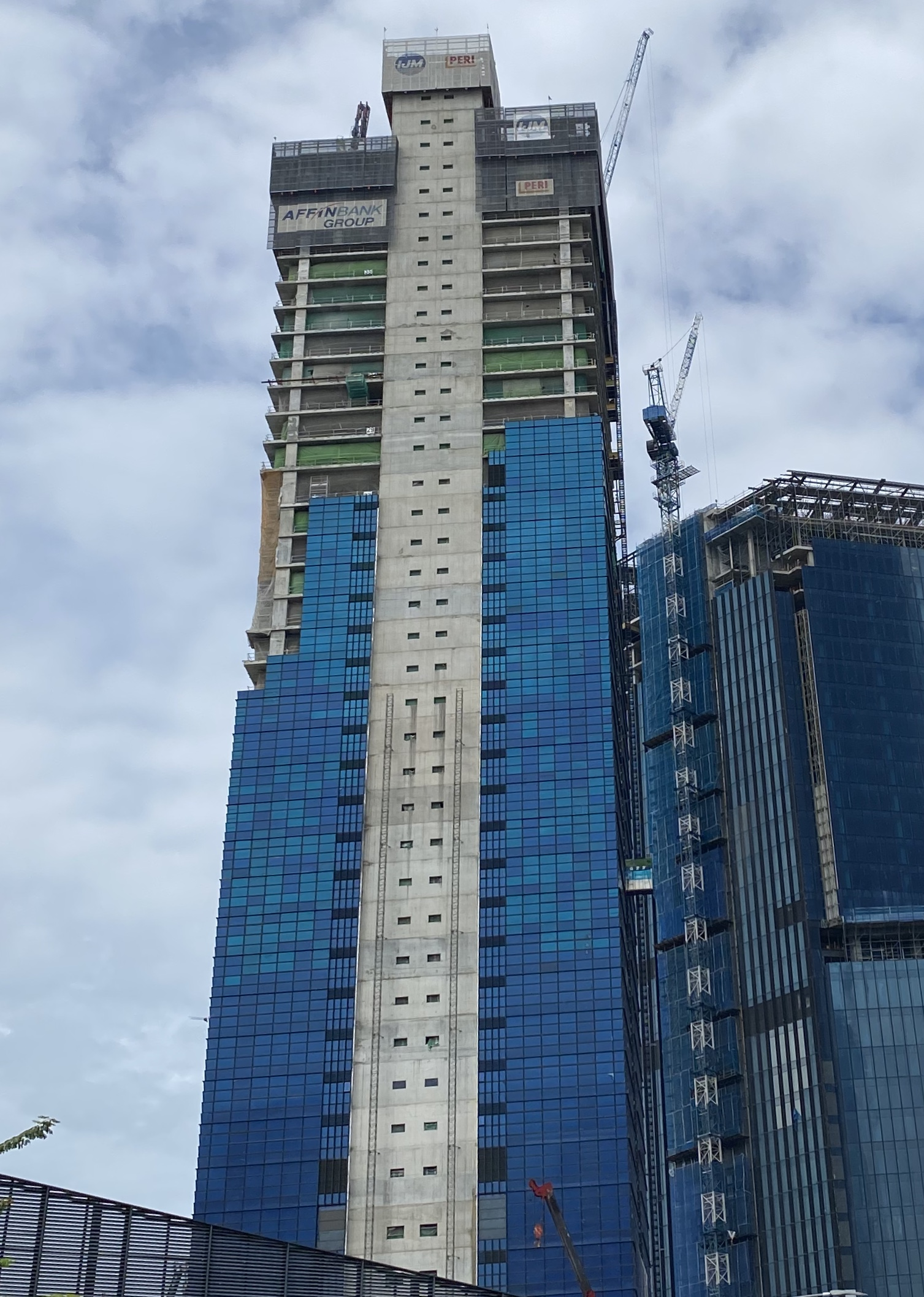 Affin Bank's Headquarters under construction in July 2020 in TRX, Kuala Lumpur's new financial district